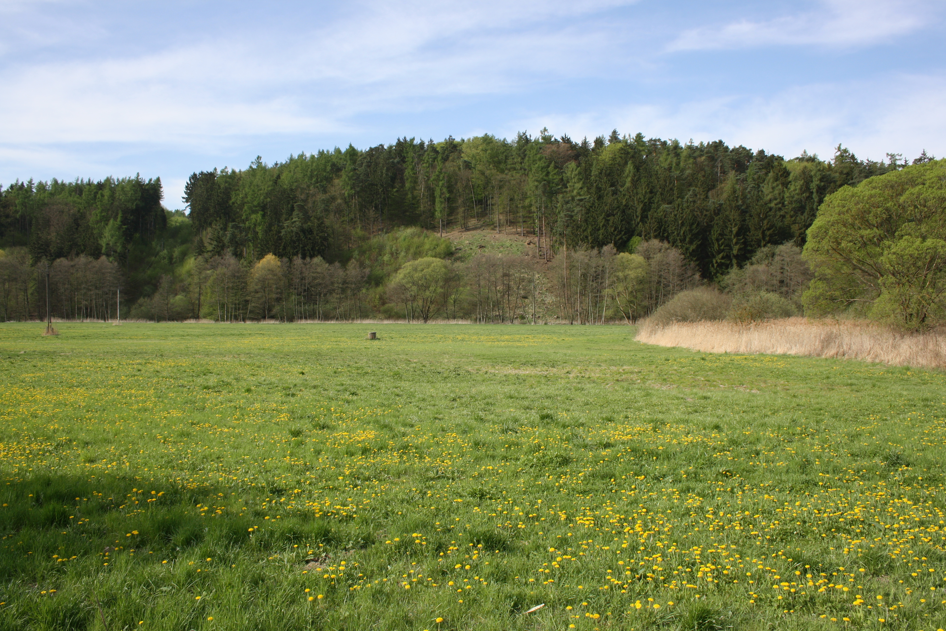 Nature park Bobrava. Brno-Country District, Sout Moravian Region, Czech Republic Project: Chráněná území This photograph was taken with a DSLR from WMCZ's Camera grant.